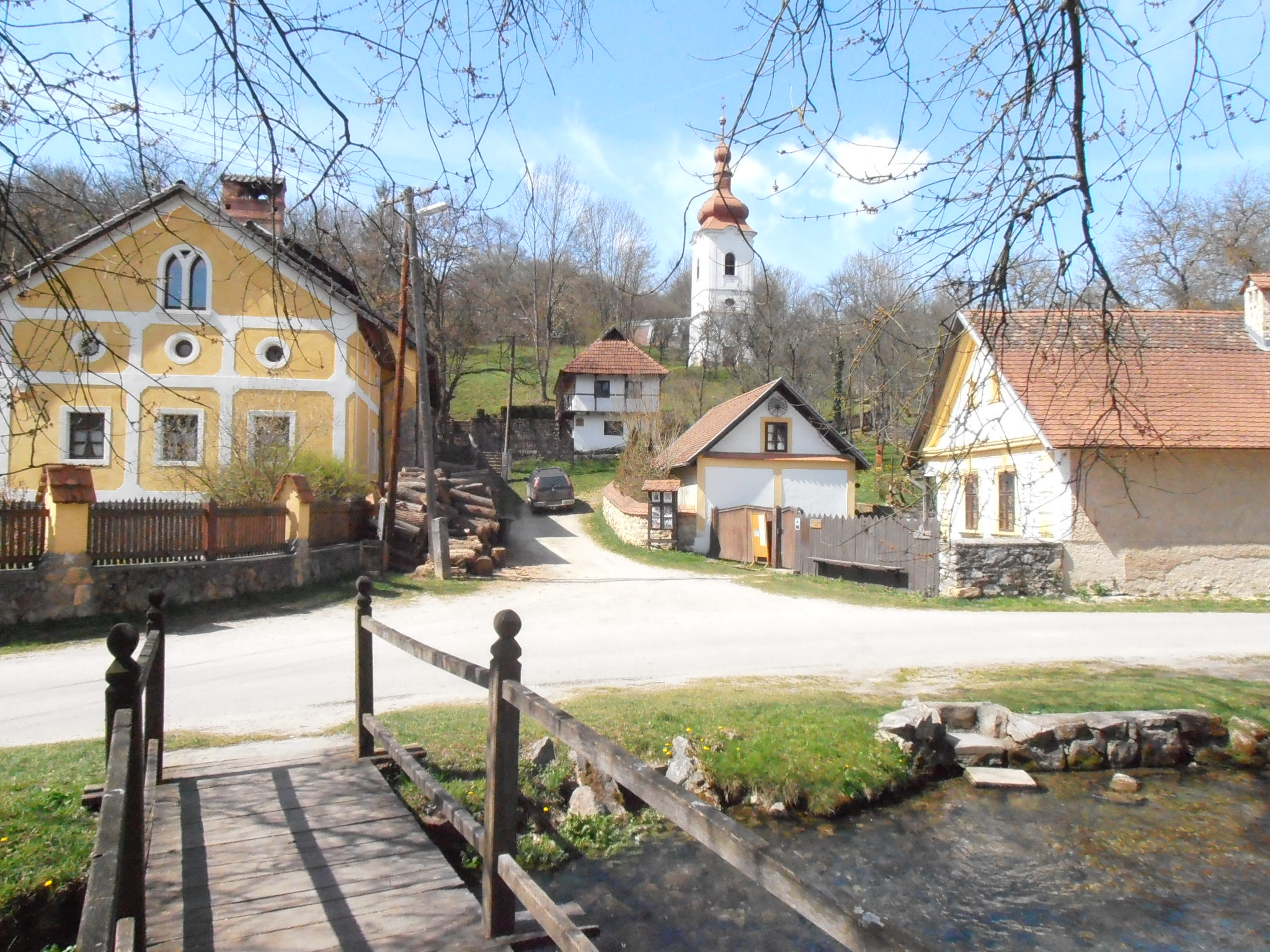 Village centre, Jósvafő, Hungary Jósvafői ófalu, főtér